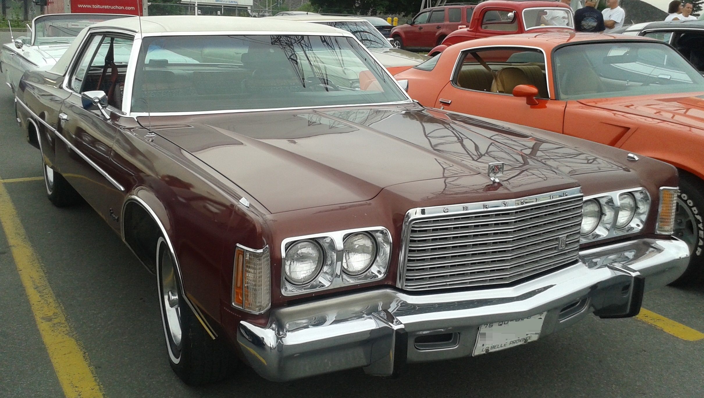 1975 Chrysler Newport photographed in Montreal, Quebec, Canada at Auto classique VACM Montréal 2014.